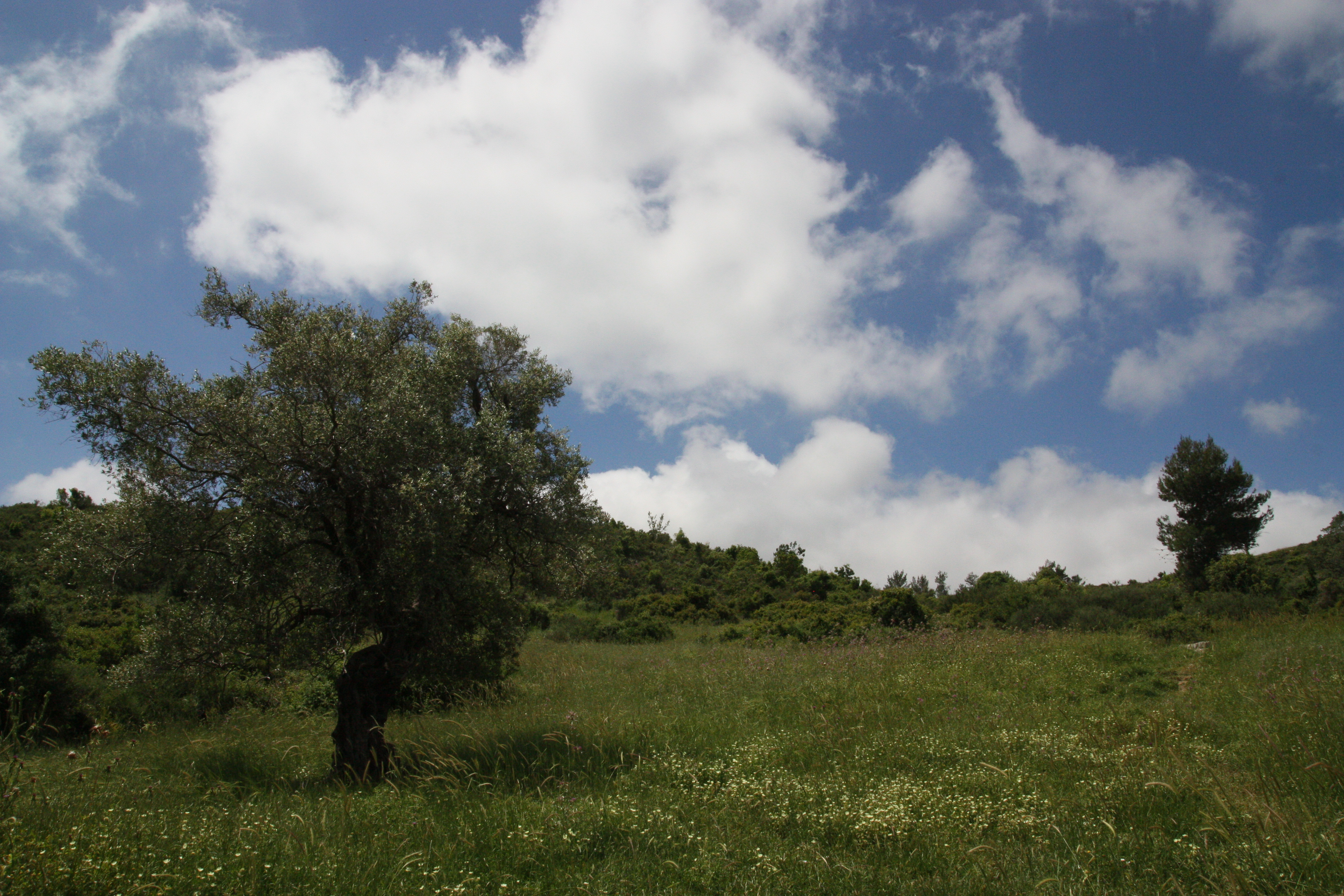 Mount Carmel